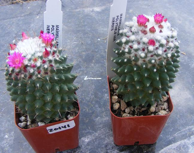 Mammillaria polythele var inermis